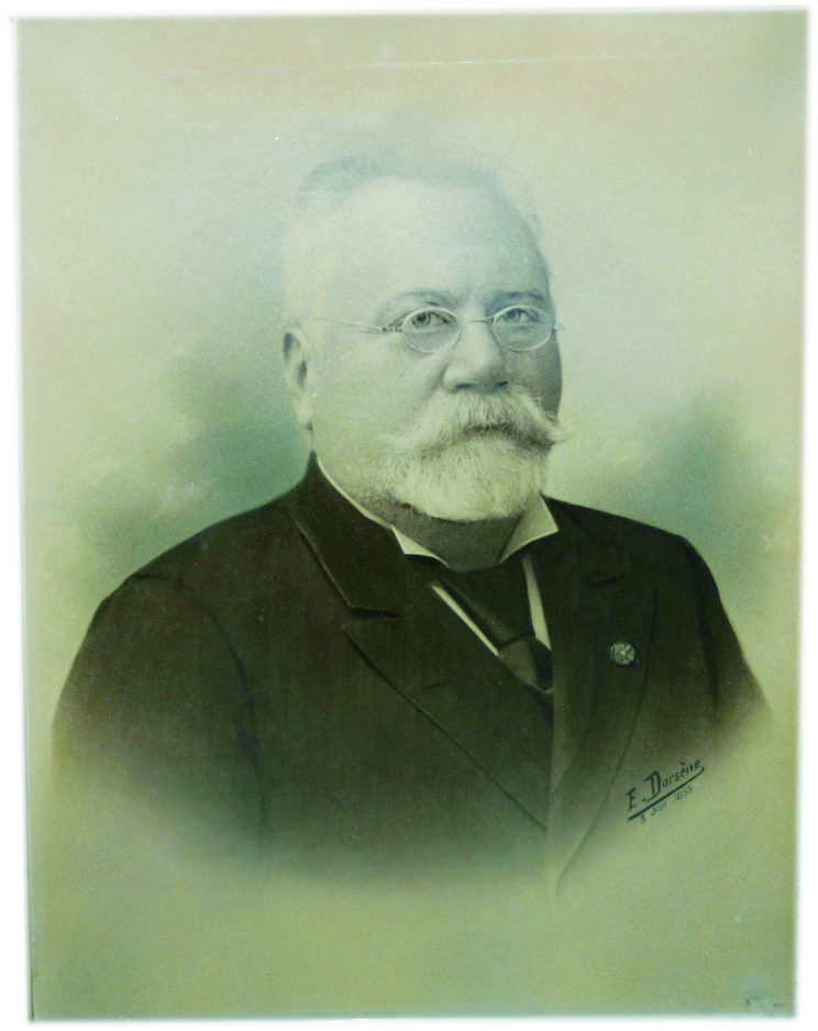 J.H. SECRESTAT